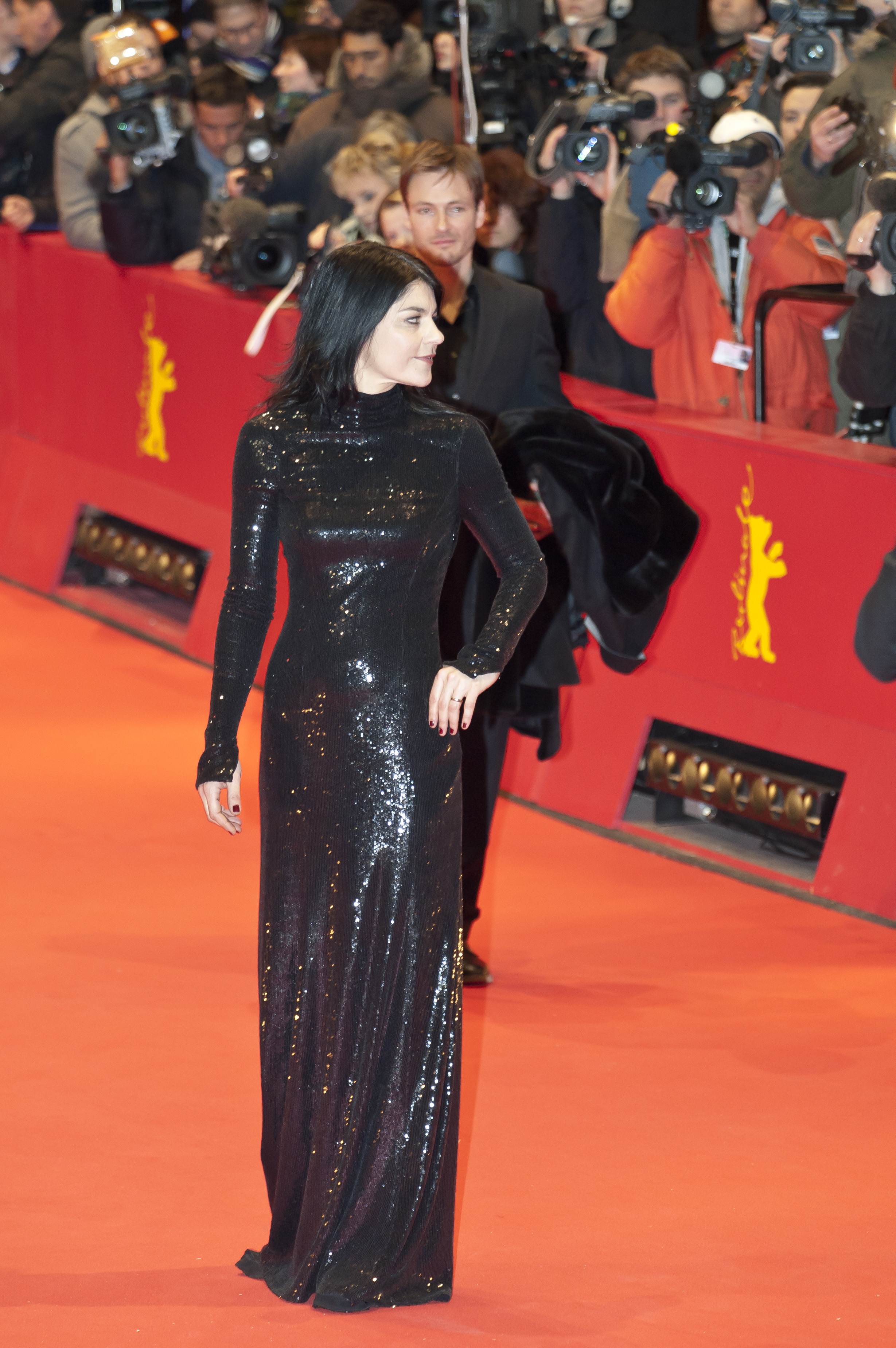 German-iranian actress Jasmin Tabatabai arriving at the premiere of True Grit during the Berlin Film Festival 2011 (behind: her colleague and companion Andreas Pietschmann)